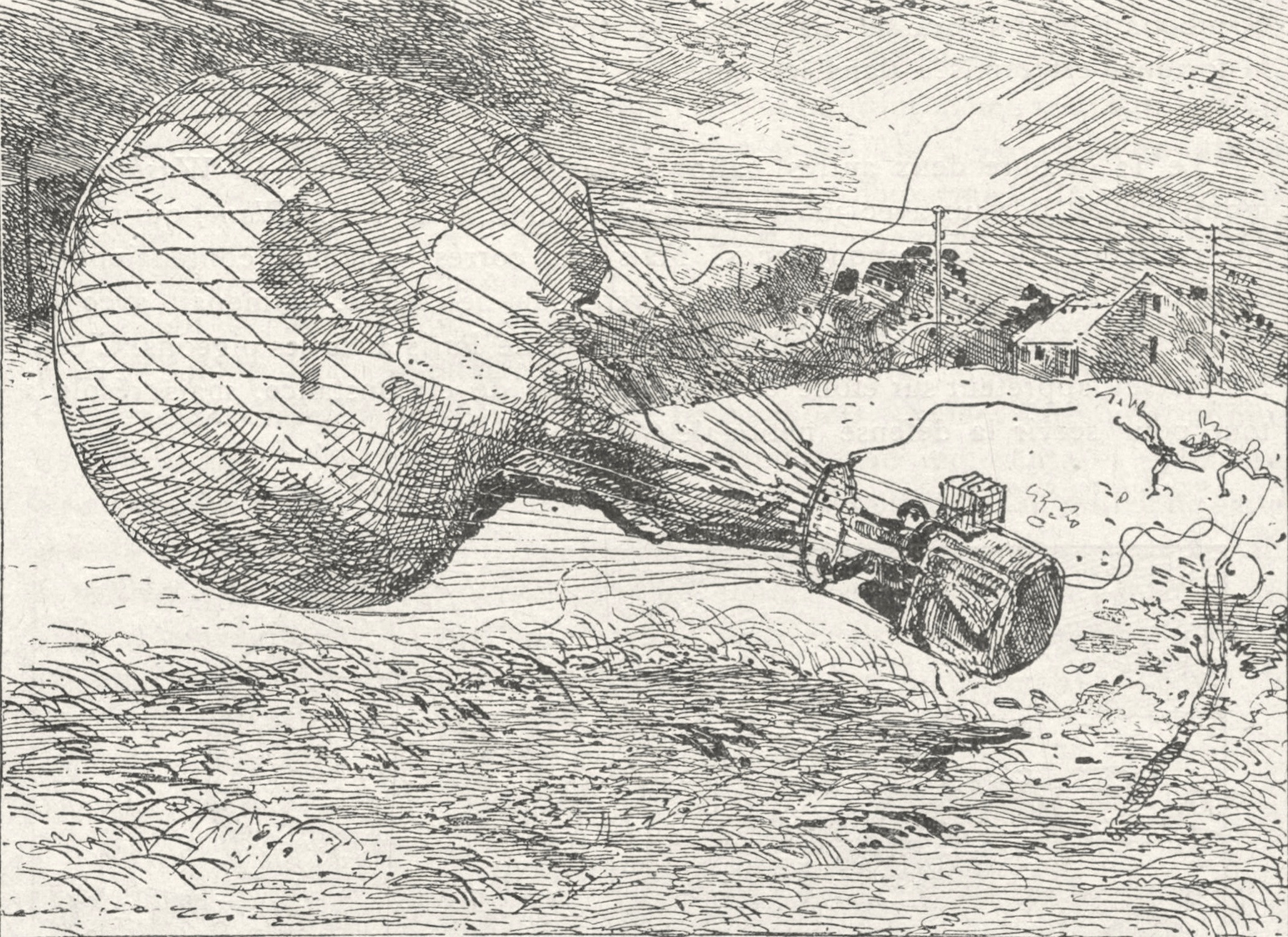 Drawing depicting the landing of the Louis Blanc, one of the 66 balloon mail that left Paris during the Siege of Paris (1870-71). The Louis Blanc was the 10th sent. Pilot: Eugène Farcot.